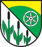 Coat of Arms of Rohrberg